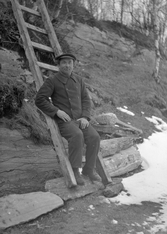 Photo of Charles Ravn taken by photograph Charles Ravn in Ballangen, Norway i ca. 1920- 1930. Archive: Arkiv i Nordland.